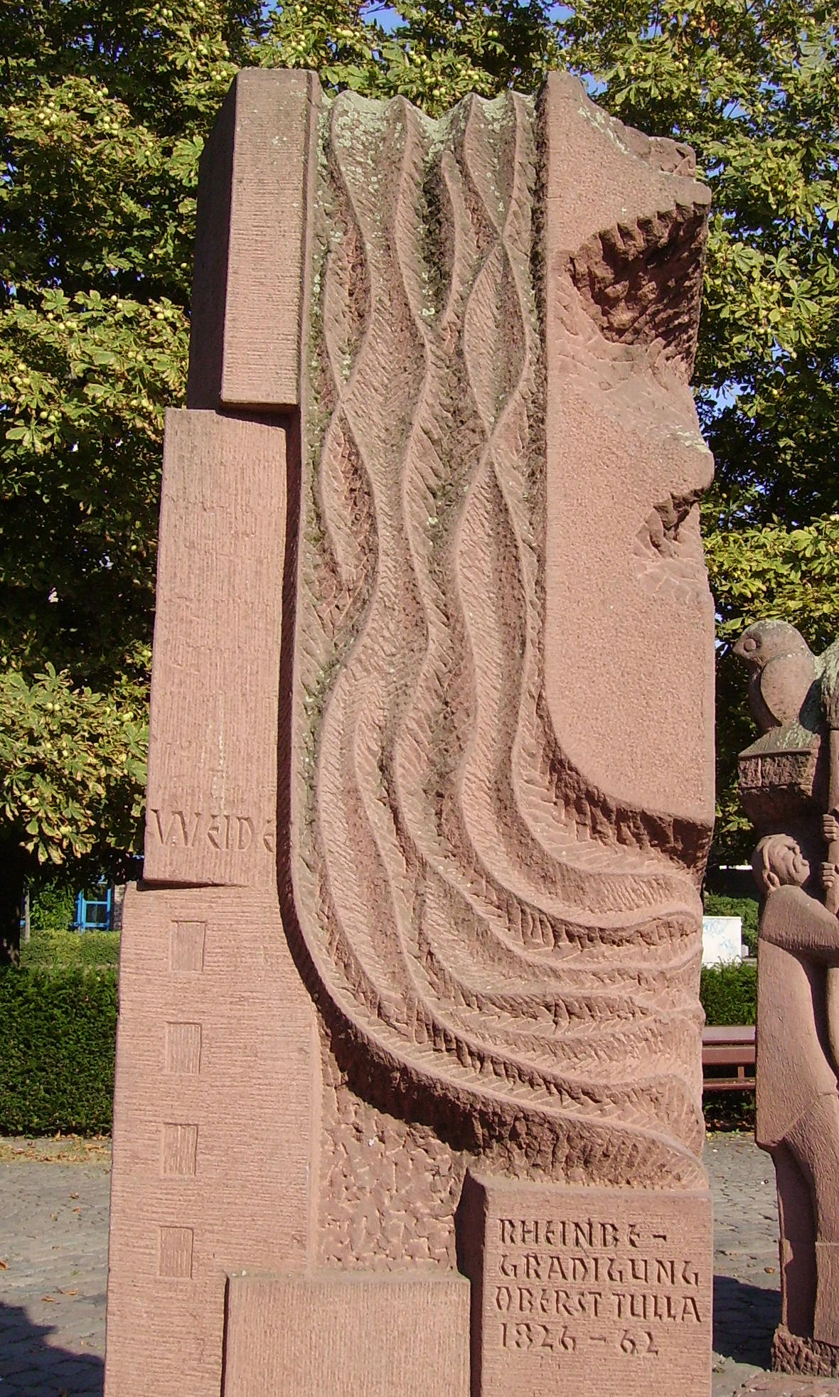 correction of the Rhine River by Johann Gottfried Tulla on a fountain in Ludwigshafen, Germany